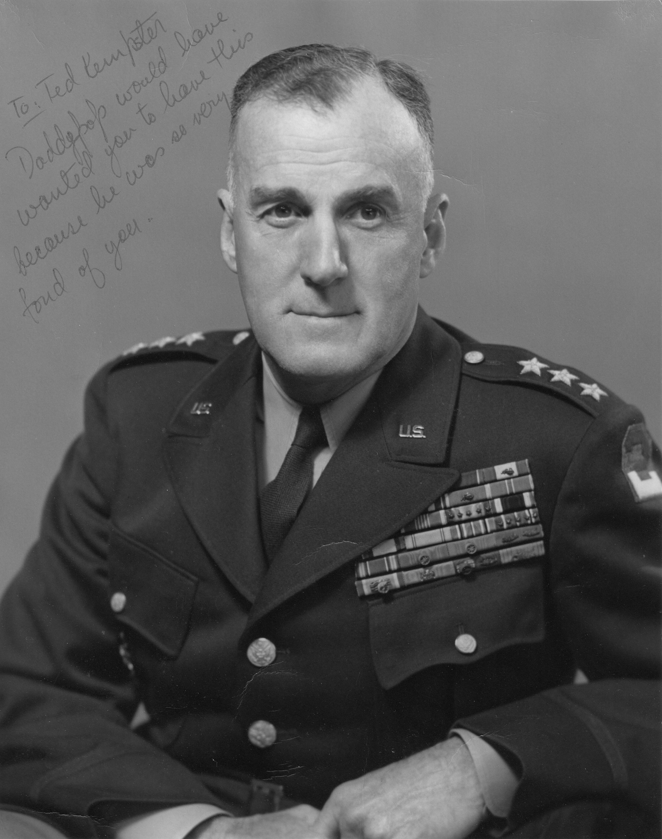 Portrait of Lt. General Edward H. Brooks, Commanding General, Second Army, Ft Geo G. Meade, MD. Writing on picture by COL (USA) R. Potter Campbell, Jr for great-grandson of General Brooks, Ted Kempster.